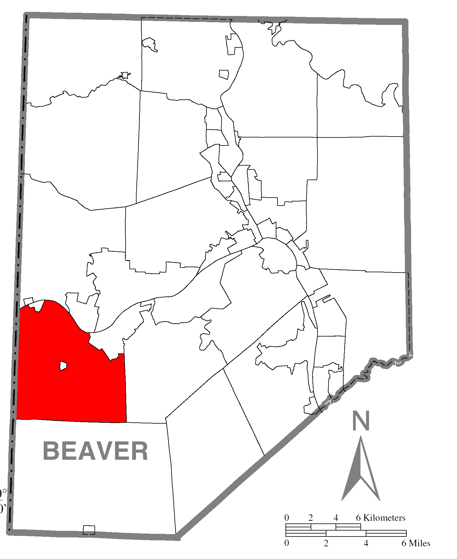 A map of Beaver County showing Greene Township, Pennsylvania (alternate) highlighted on the map.